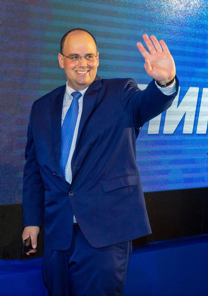 Bat Yam mayor Tzvika Brot waving